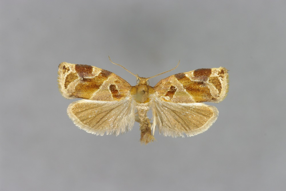 Archips xylosteana, male